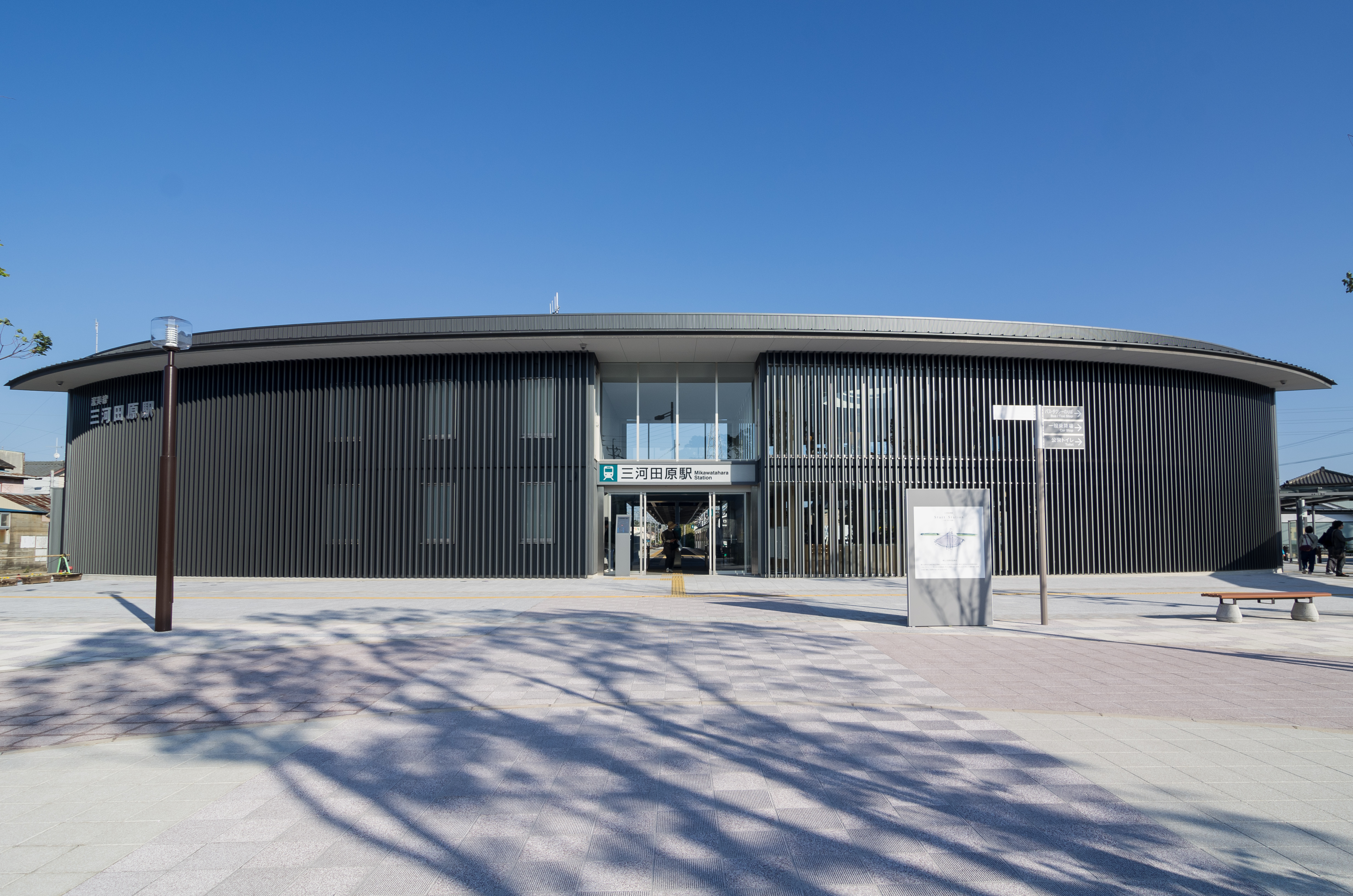 Station Building of Mikawa-Tahara Station (opened in 2013-10-27)